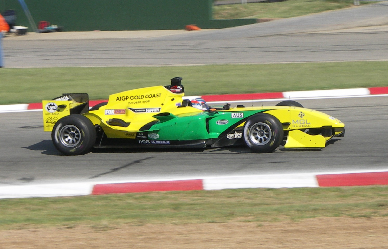 A1 Team Australia at Kyalami, Gauteng, South Africa during the 2008-09 A1 Grand Prix season